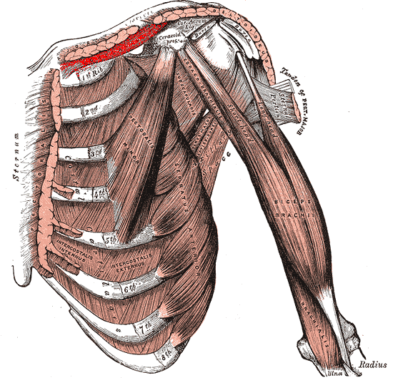 From , for use in others wikipedias